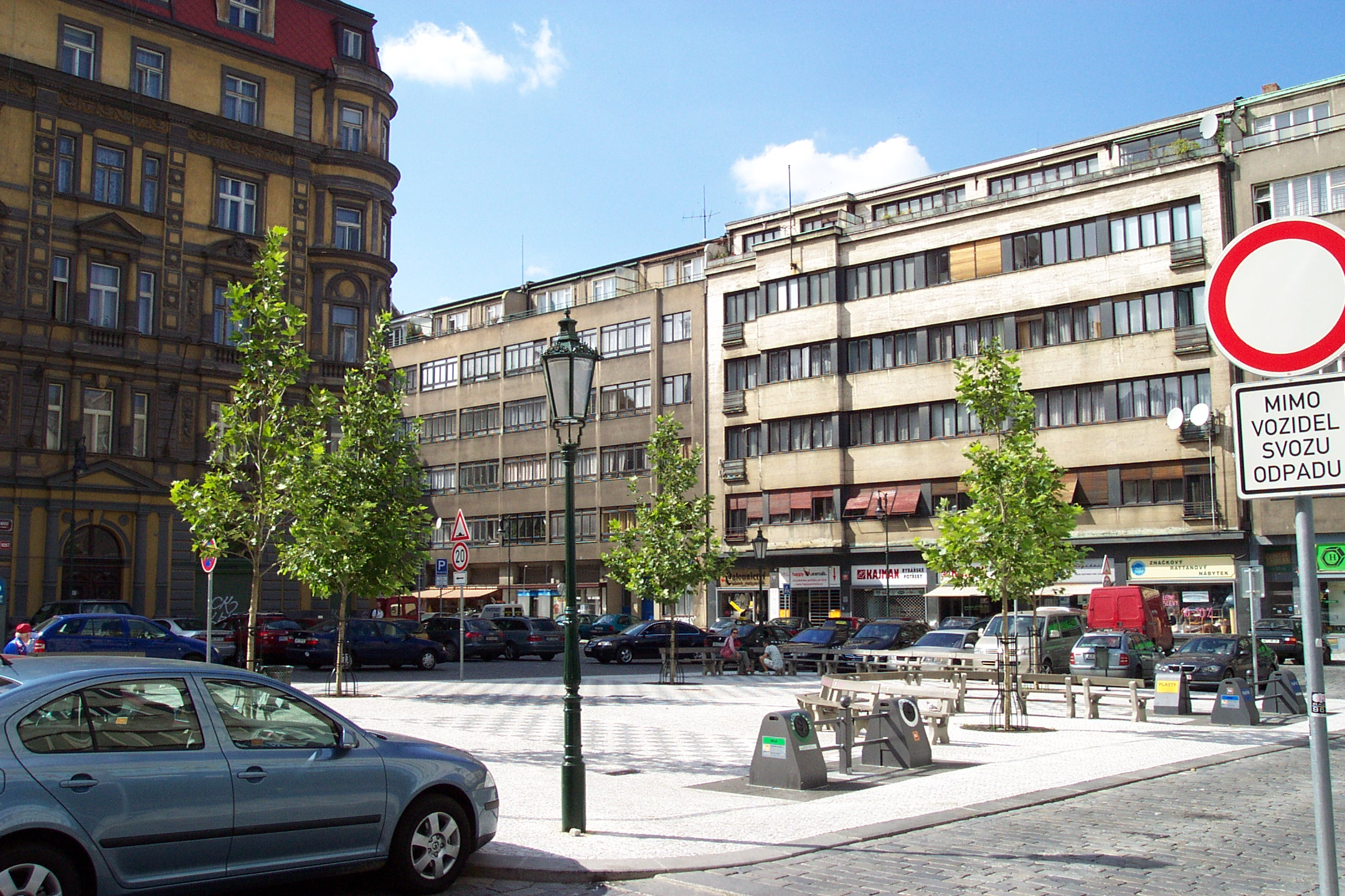 Petrské náměstí square (Peter's square) in Prague